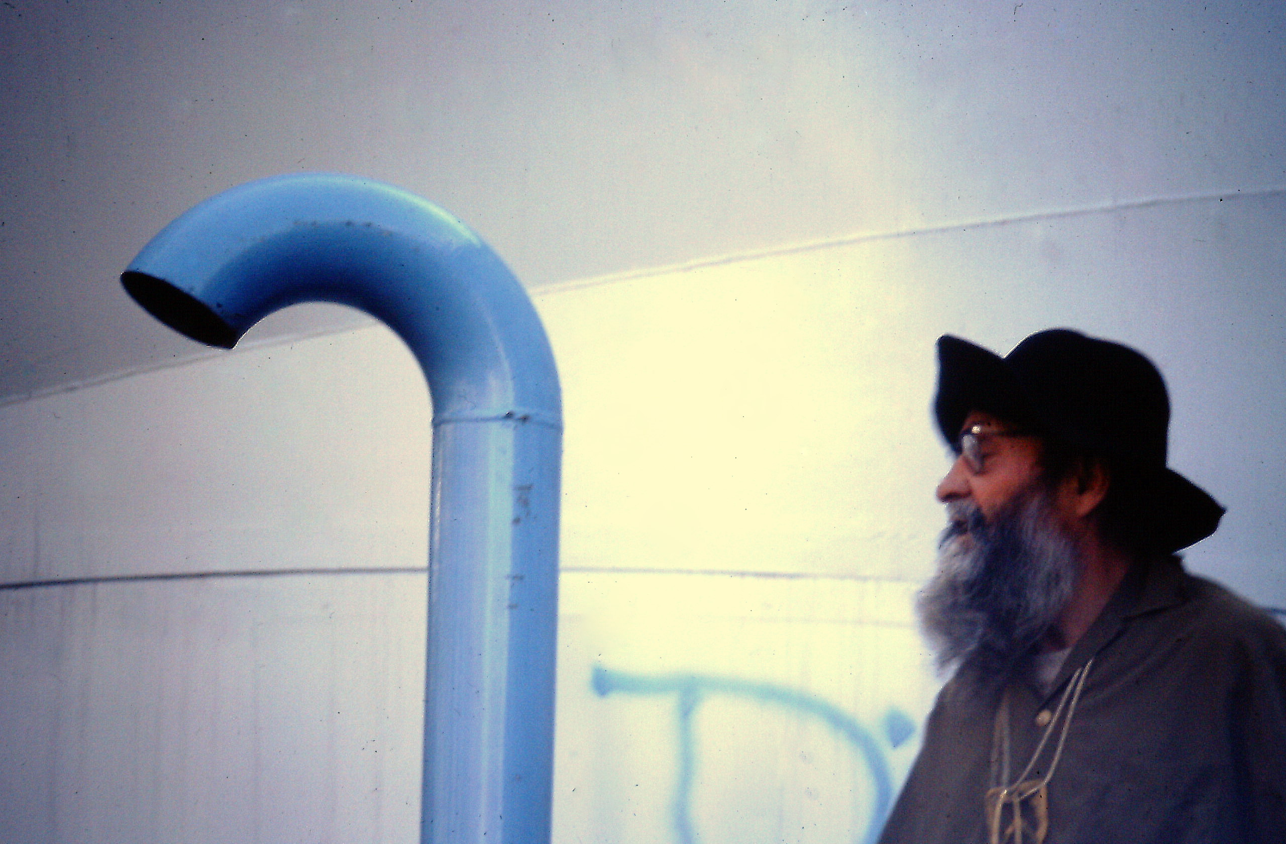 Aguigui Mouna